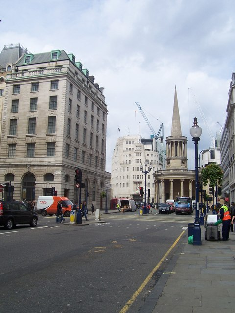 London : Regent Street On Regent Street All Saints Church and the BBC Broadcasting House can be seen.